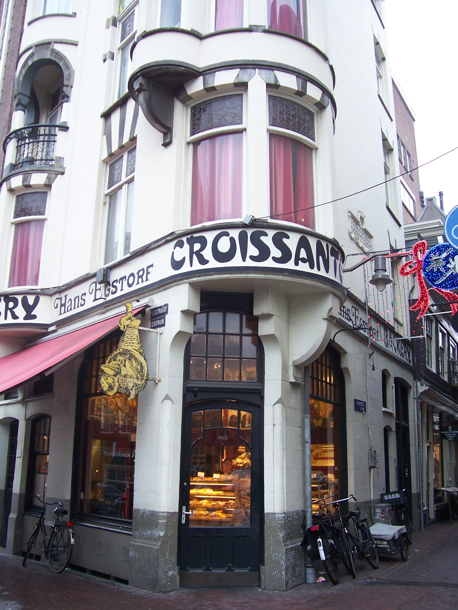 Bakery "Le Croissant" (french name), Amsterdam, Spuistraat (Centrum)